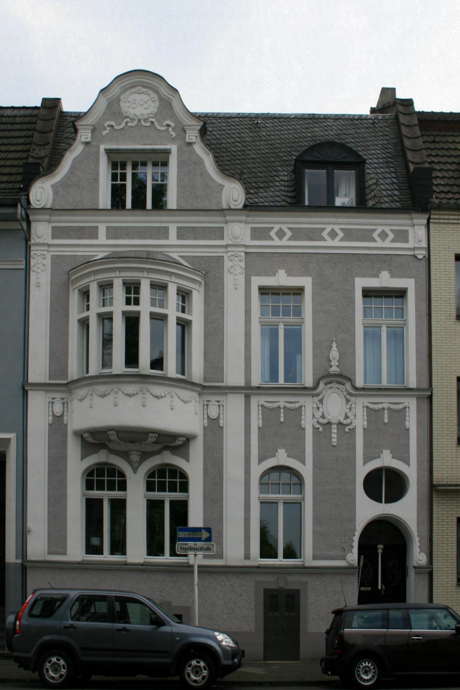 Cultural heritage monument No. H 079 in Mönchengladbach